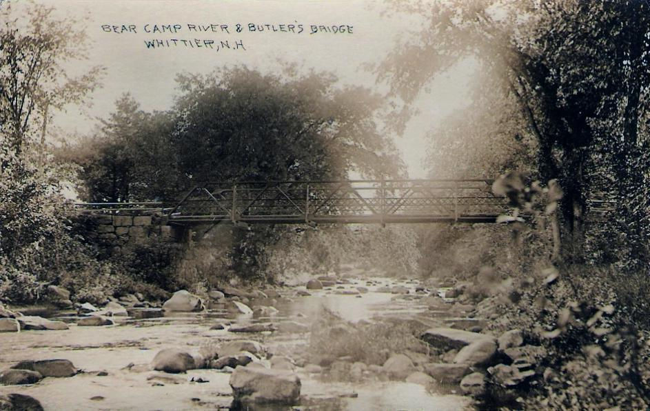 Bearcamp (or Bear Camp) River and Butler's Bridge, Whittier, NH; from a 1912 postcard. Whittier is a village within the town of Tamworth.